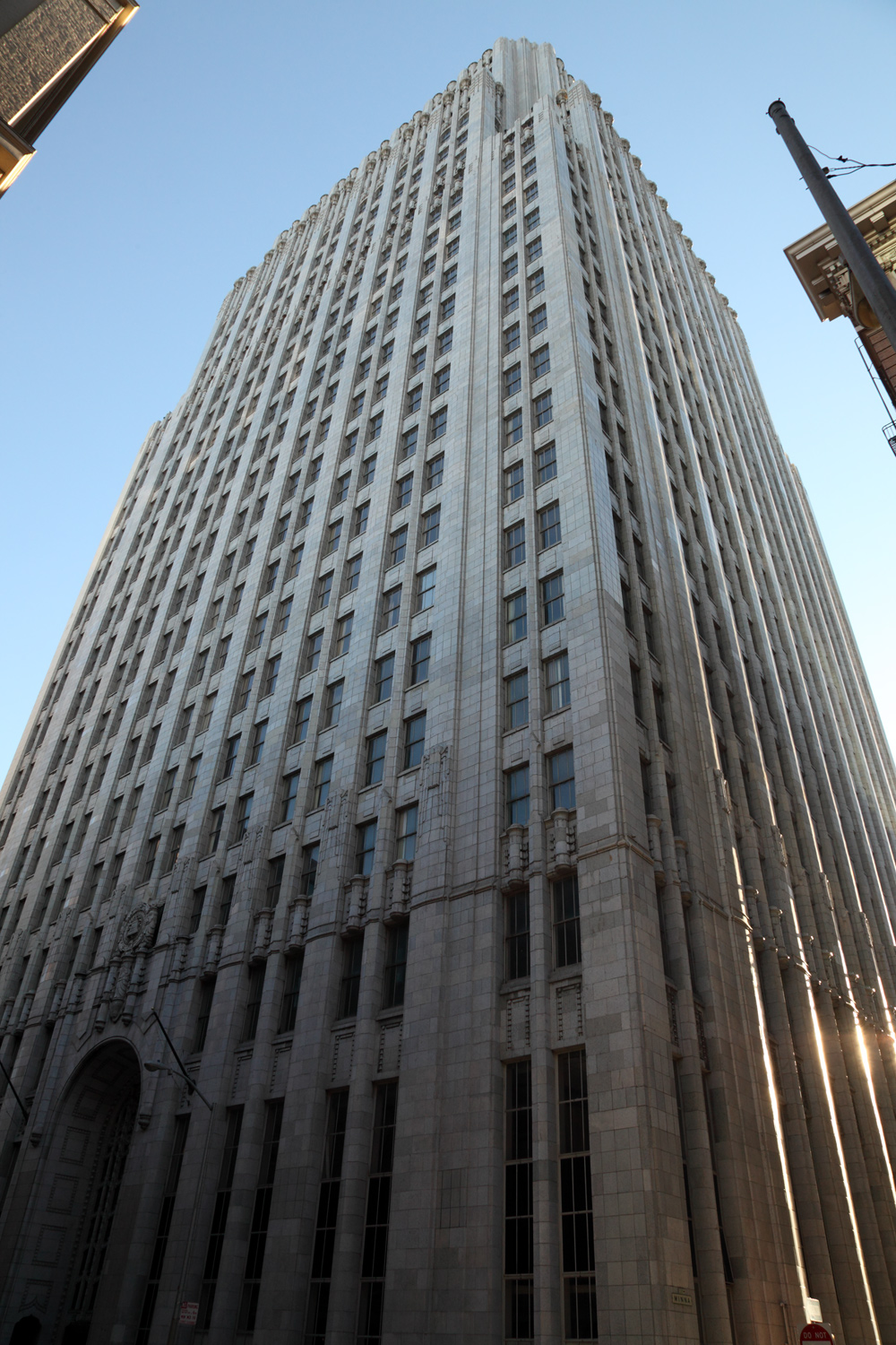 The northeast corner of the PacBell Building in San Francisco